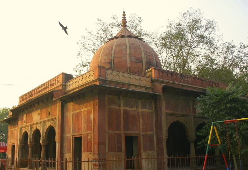 Lal Bangla Lal Bangla I&II (circa 1780) Two monuments located at the entrance of Golf Club are named Lal Bangla I&II. The larger one is Lal Bangla I which has square double dome chamber and arcaded verandas on each side These tombs are supposed to be of Lal Kuwar mother of Shah Alam II and Begam Jan his daughter.